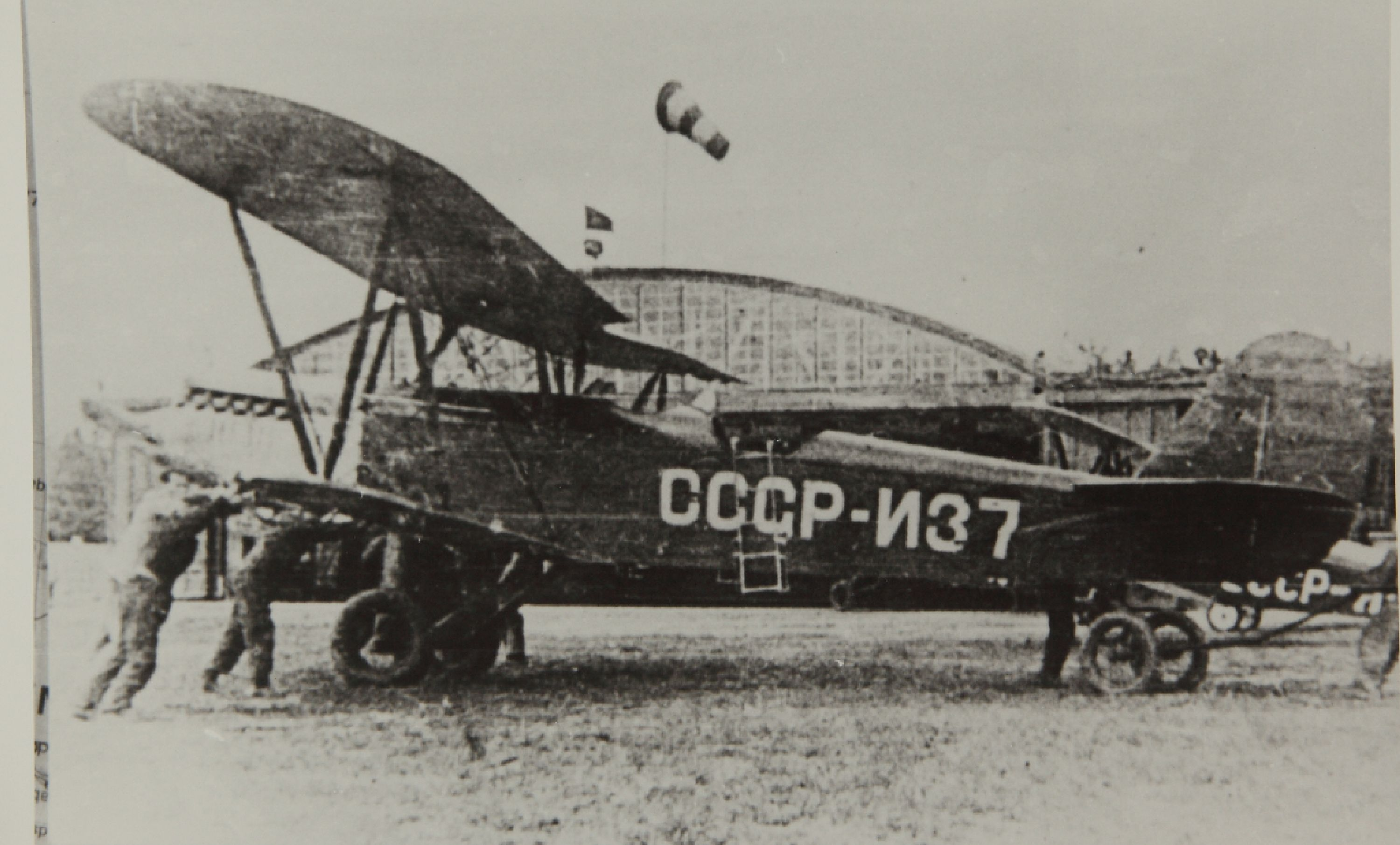 Catalog #: 01_00086905 Manufacturer: Polikarpov Designation: R-5 Notes: Russia Repository: San Diego Air and Space Museum Archive